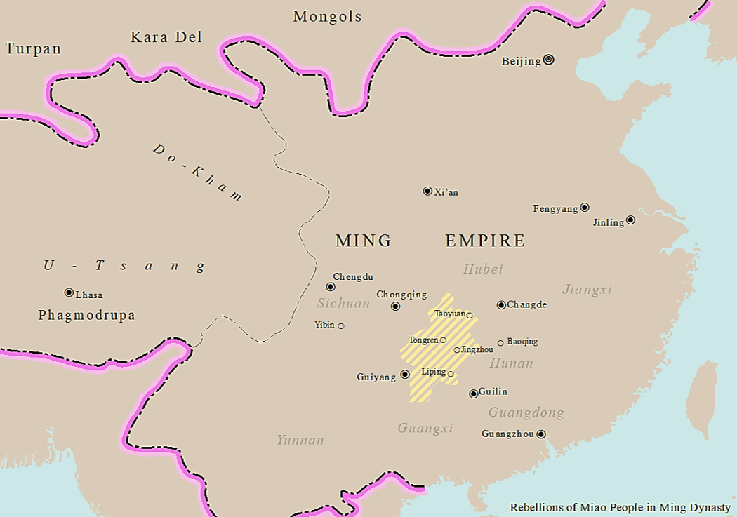 Map Showing Rebellions of Miao People in Ming Dynasty China